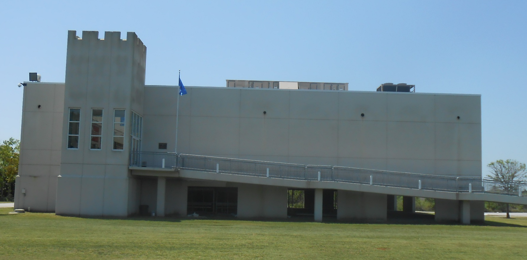 Inouye Hall (rifle range), The Citadel, Charleston, SC